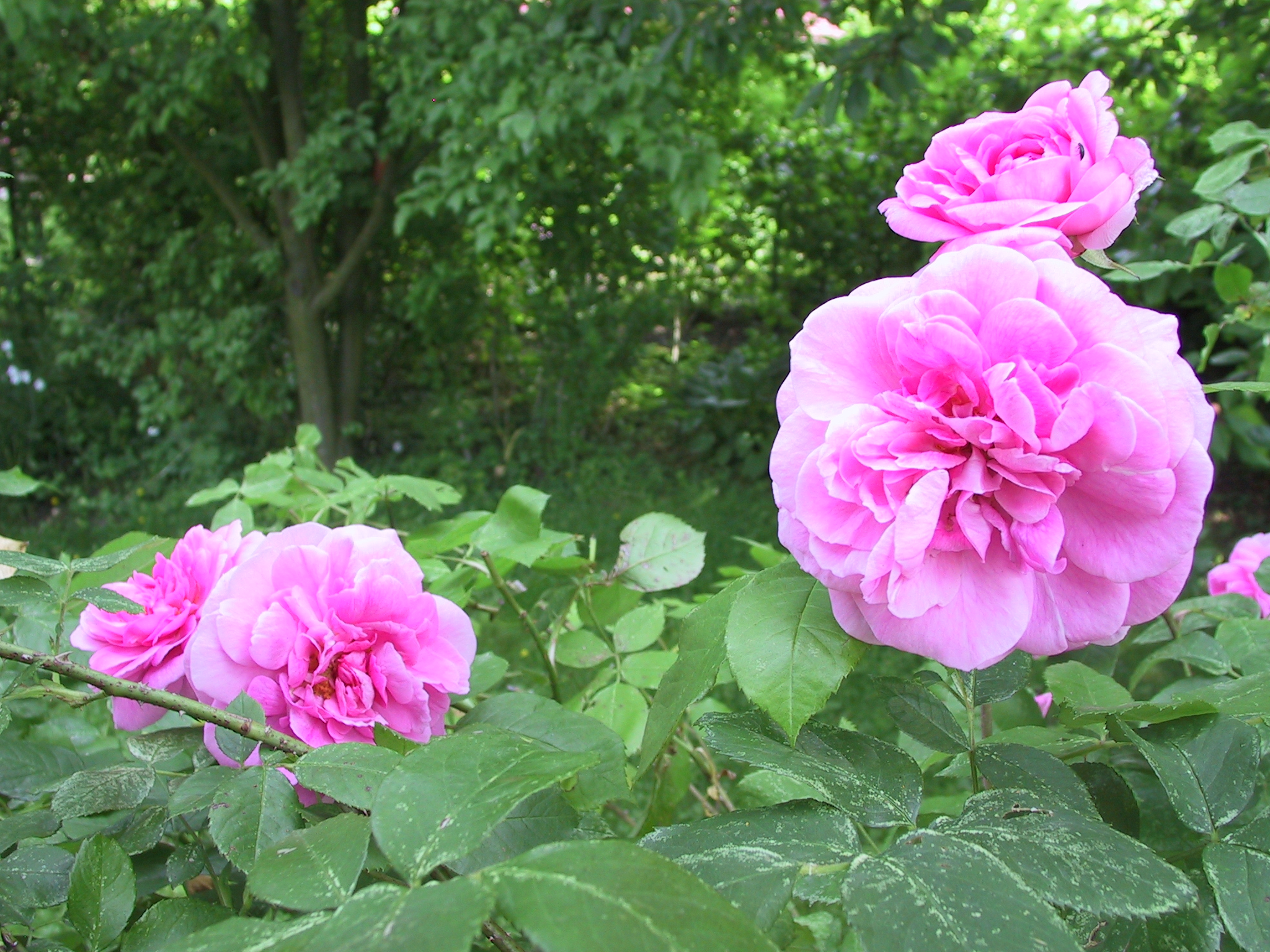 Description: Rose 'Gertrude Jekyll' in June (Salzhemmendorf, Germany) Source: self made Date: 20062406 Author = --Ruestz 11:10, 28 June 2006 (UTC)